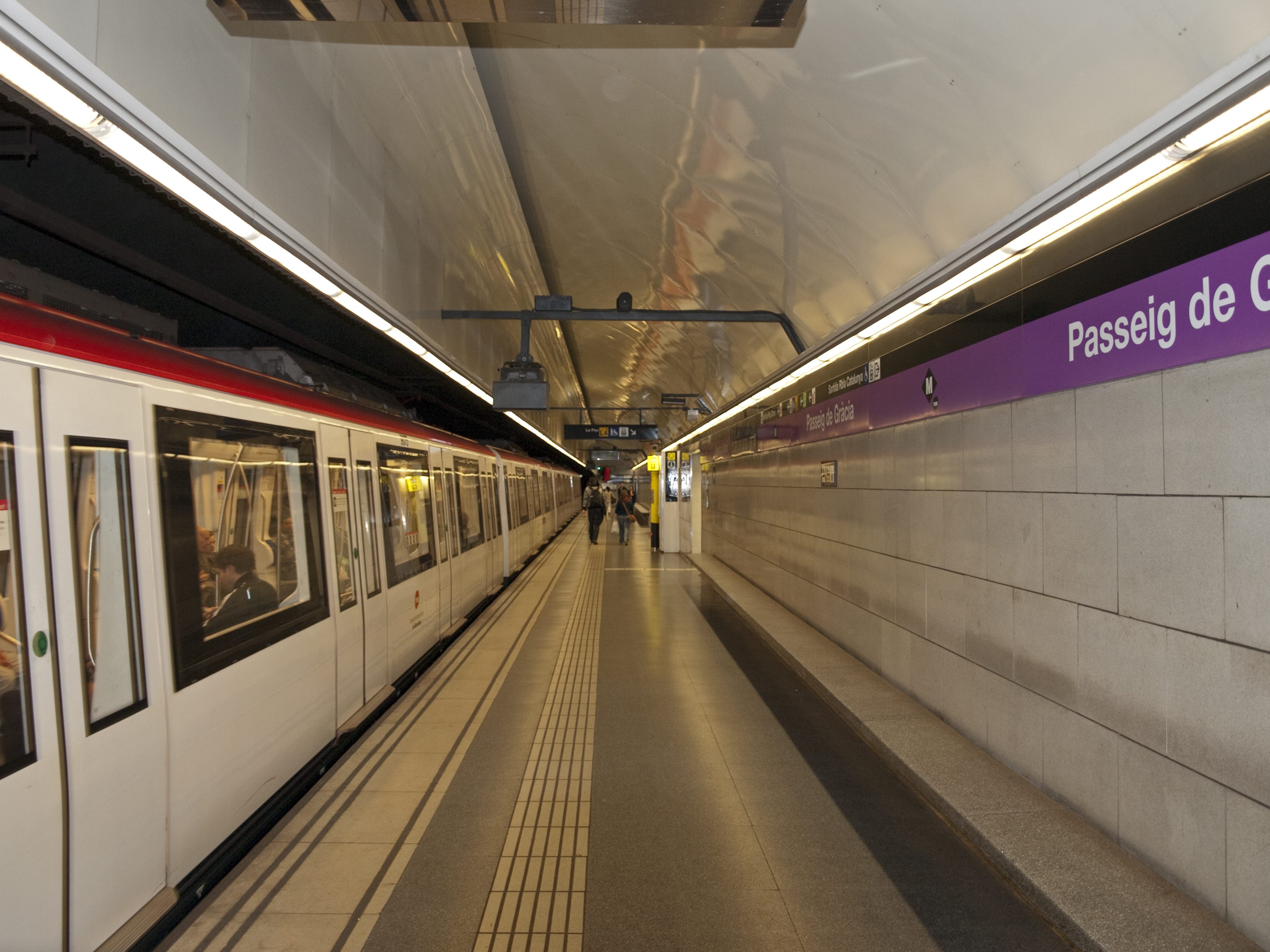 Passeig_de_Gràcia station, Line L2